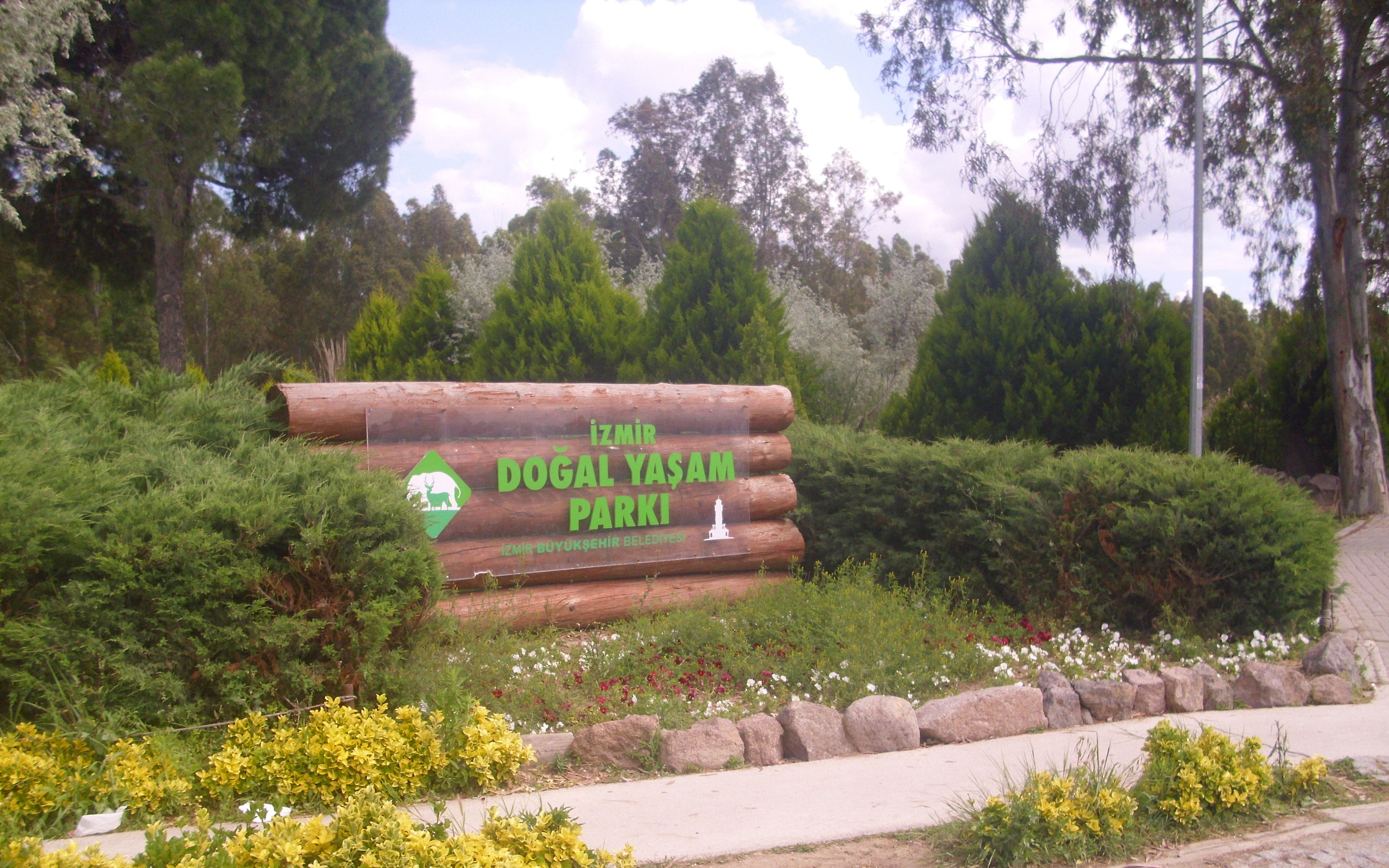 İzmir Natural Life Park